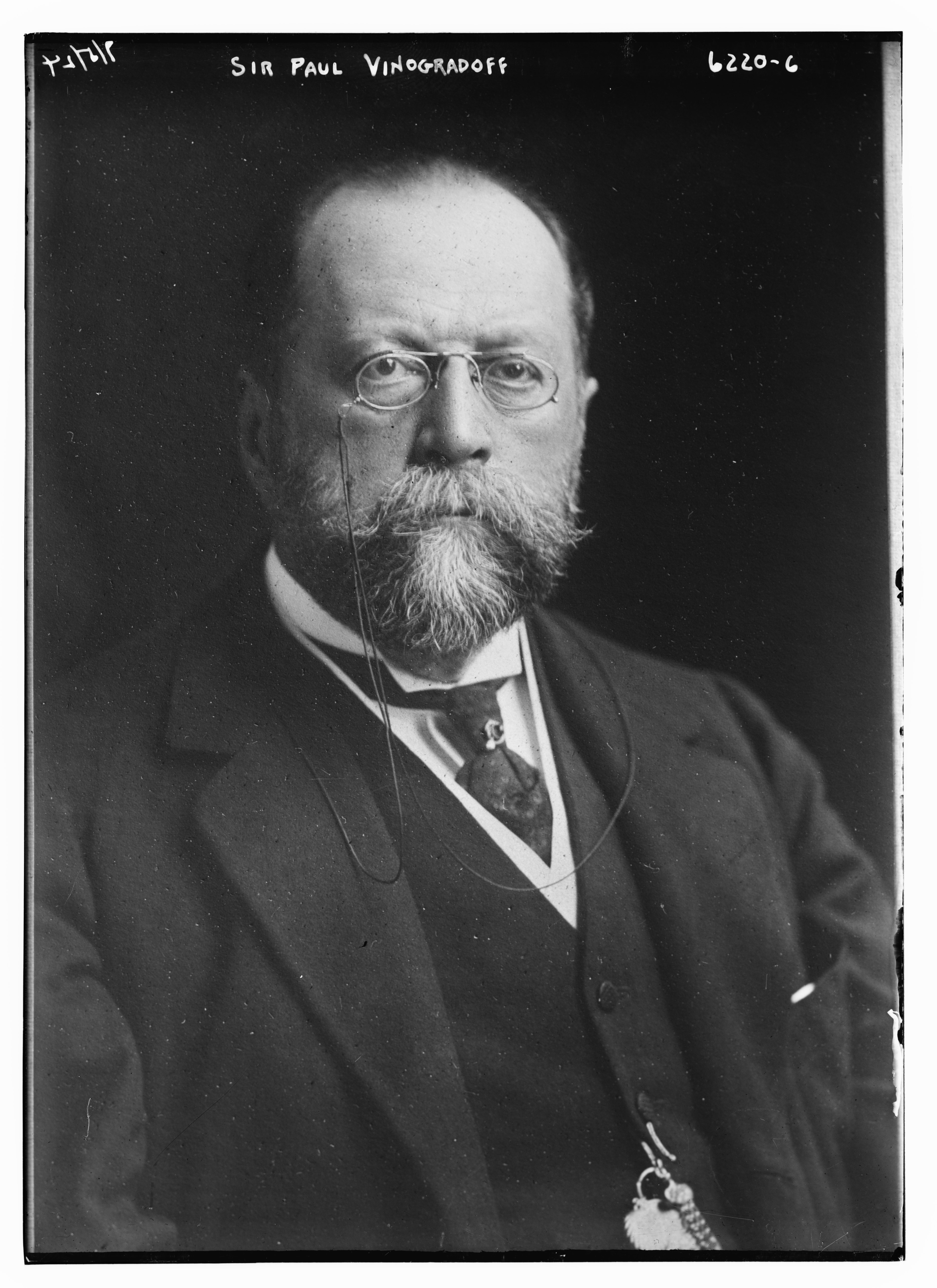 Title: Sir Paul Vinogradoff Abstract/medium: 1 negative : glass ; 5 x 7 in. or smaller.